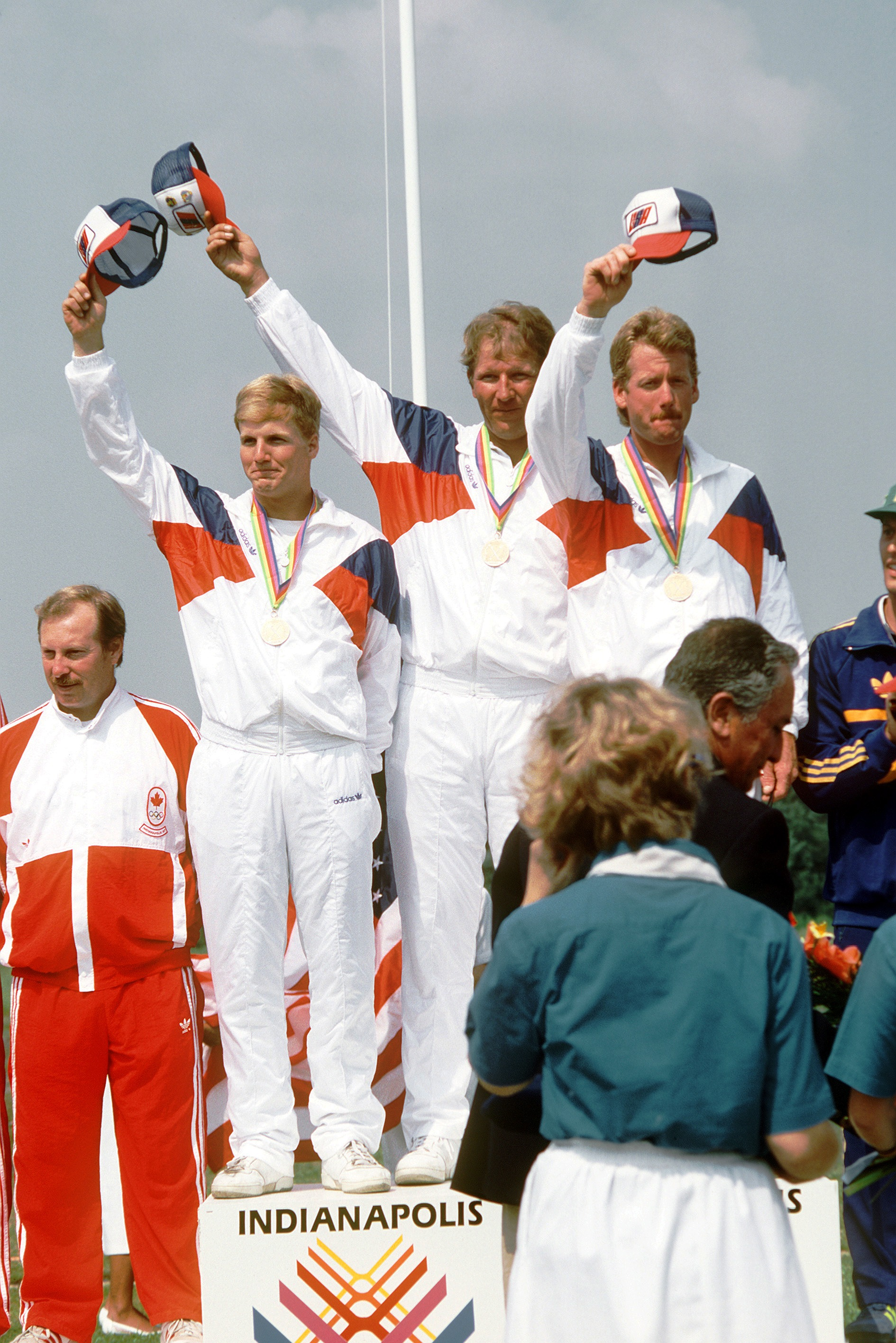 George Haas, left, Ken Blasi, center, and the third member of the U.S. trap shooting team wave from the winner's platform after being awarded gold medals for their efforts in the 10th Annual Pan American Games. Exact Date Shot Unknown.